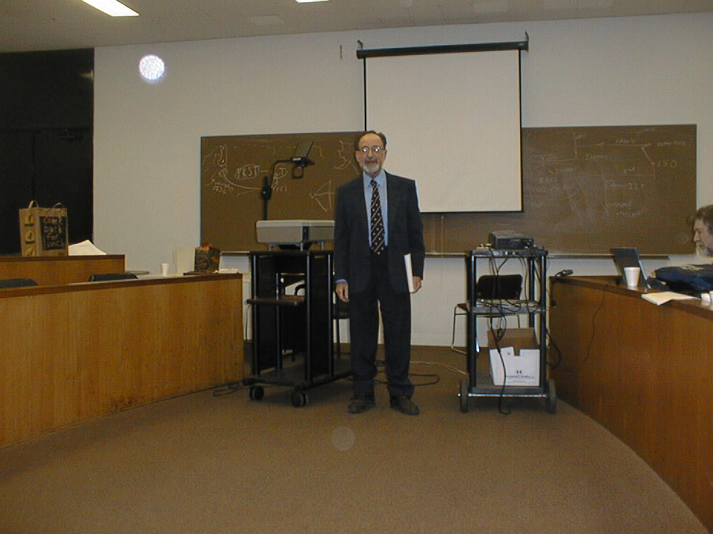 Frank Harary preaching in Chicago on November 2001